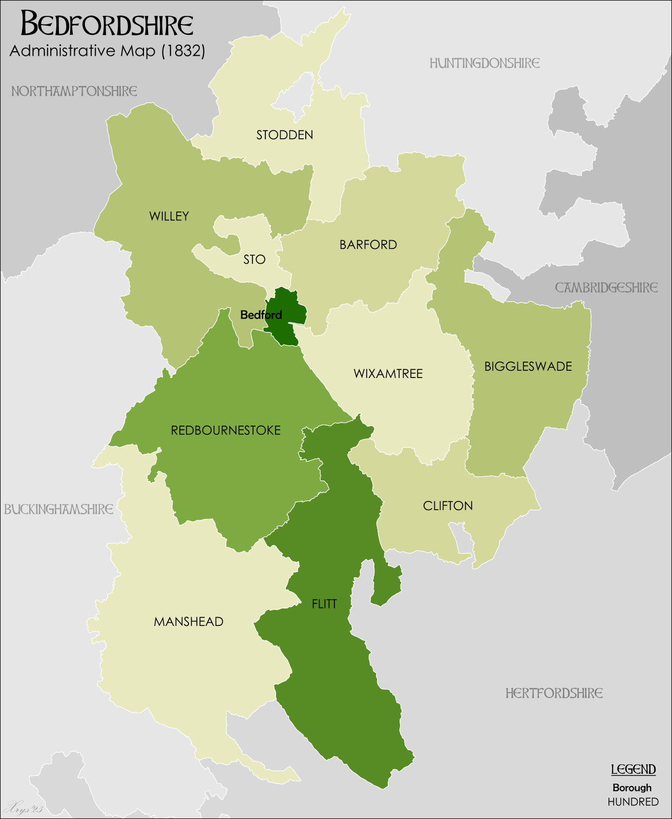 Administrative map of Bedfordshire in 1832 showing Hundreds. Also showing extant Boroughs Hundred boundaries from University of Nottingham English Place Name Society. Source data for parish boundaries - Kain, R.J.P., and Oliver, R.R. (2001) "Historic parishes of England and Wales". Unit names and Borough Boundaries from Vision of Britain website.